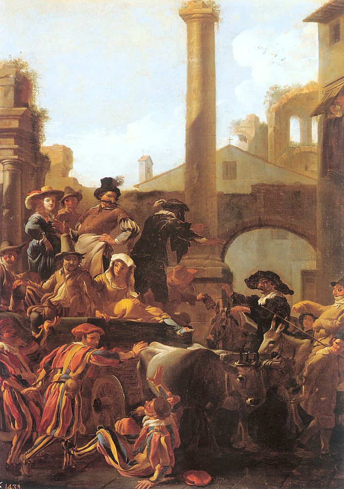 Roman Carnival